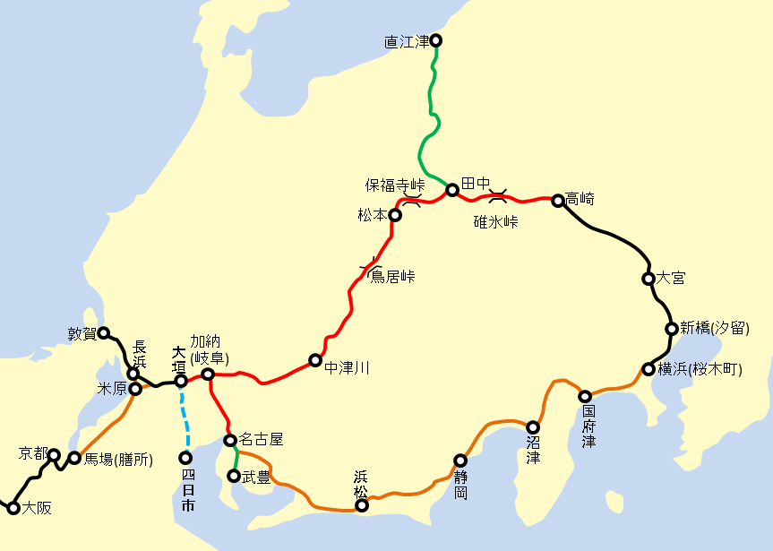 Route map of Nakasendo trunk railway that was actually started work, its alternate Tokaido main line and lines for material transport. Black solid lines represent railway lines that were in operation at the time of groundbreaking of Nakasendo trunk railway, red solid lines represent Nakasendo trunk railway route, aqua dashed line represents planned but not realized Yokkaichi line for material transport, green solid lines represent Taketoyo and Naoetsu lines for material transport, orange solid lines represent Tokaido main line which was constructed after route change.